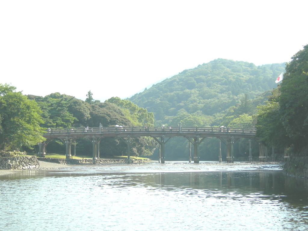 The Uji-bashi, the bridge in front of Kotaijingu(Naiku), Ise city, Mie Prefecture, Japan.